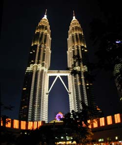 Petronas Towers landmark in Malaysia. Shot using an Olympus 2000Z digital camera in 2000. Photographer : User:Willsmith